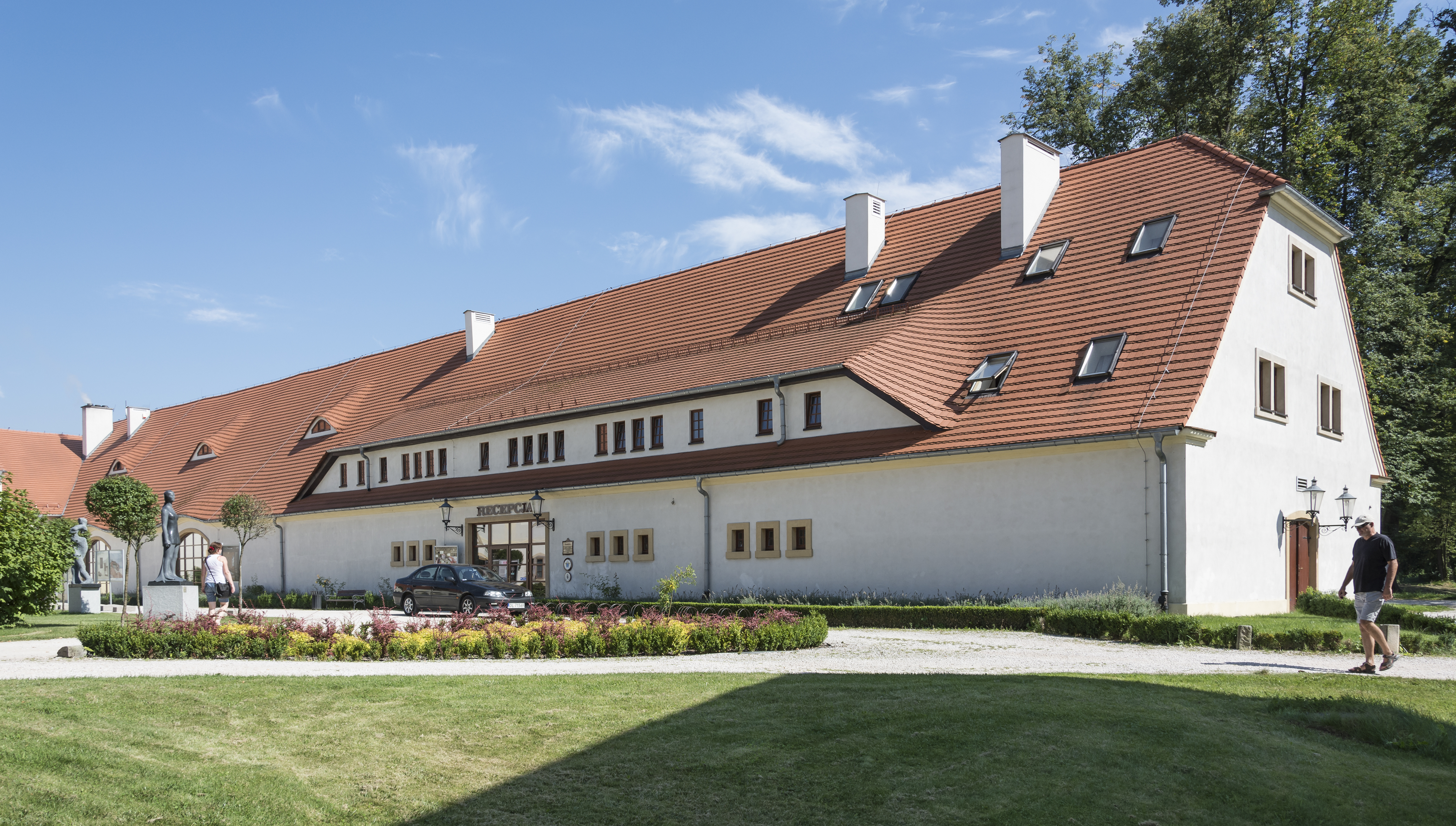 Wojanów Palace outbuilding